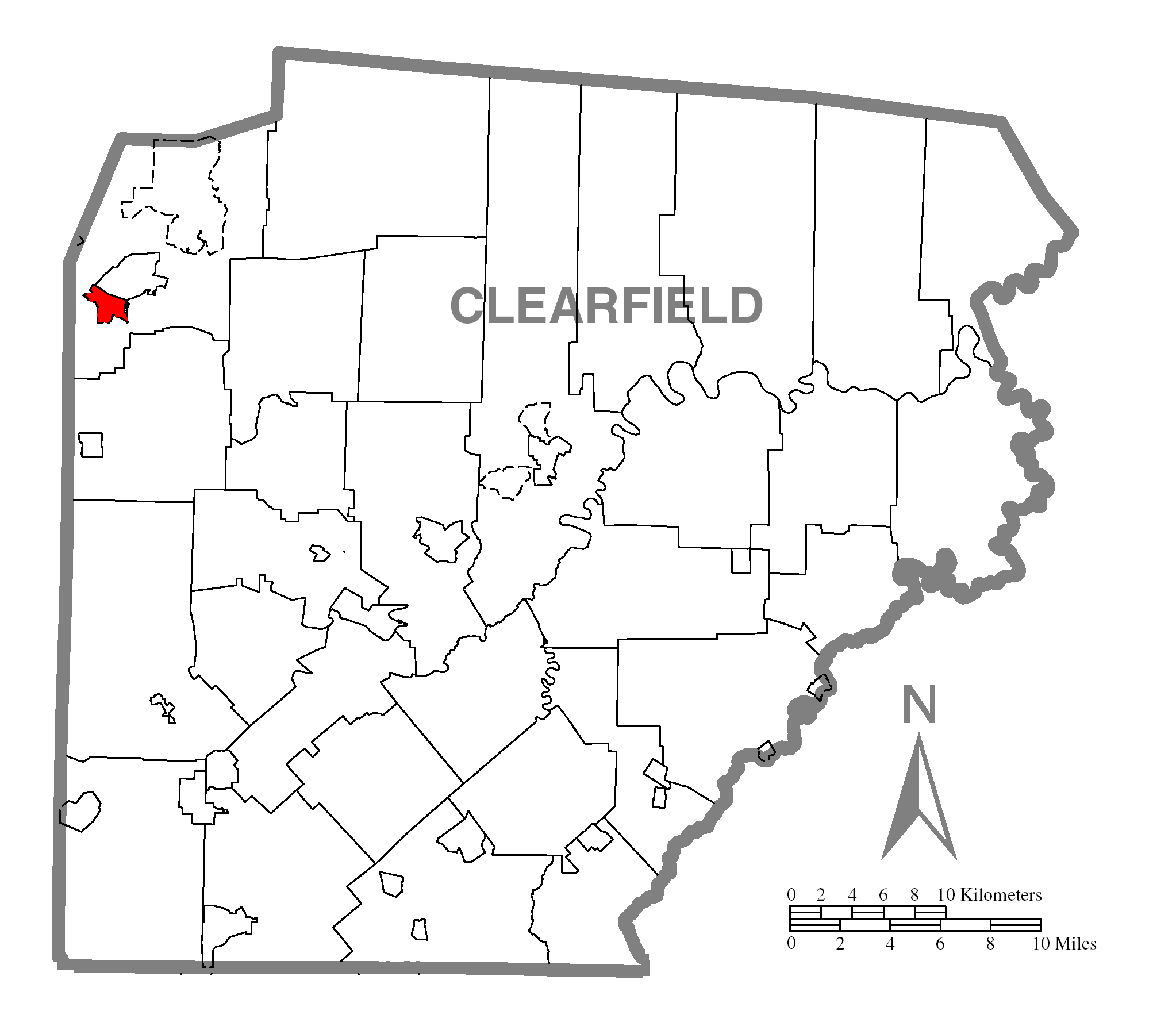 A map of Clearfield County showing Sandy, Pennsylvania (alternate) highlighted on the map.